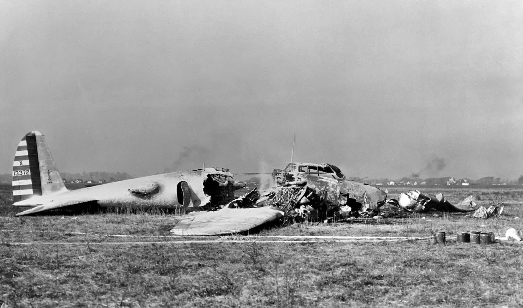 Side view of the Boeing XB-17 (Model 299) after the fire was extinguished.